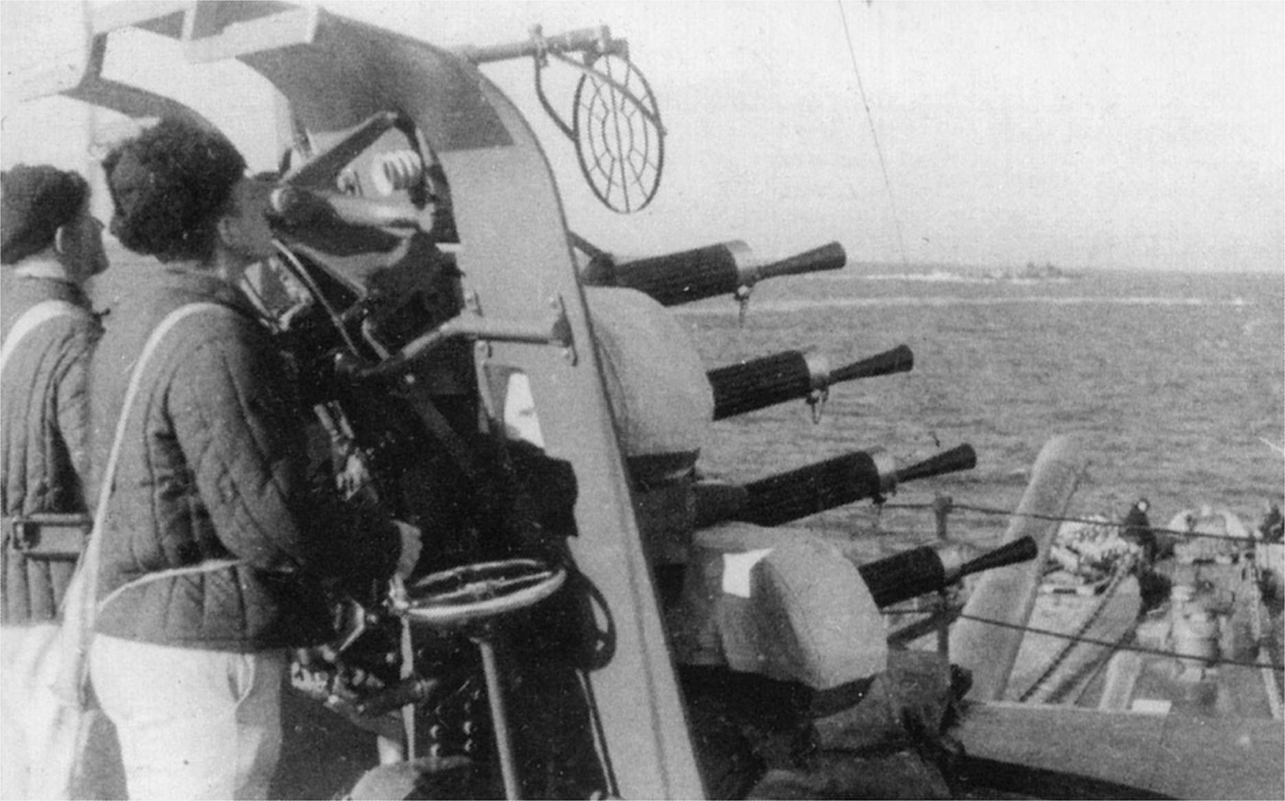 Soviet 12.7 mm MG "Vickers" on cruiser Krasnyy Kavkaz.